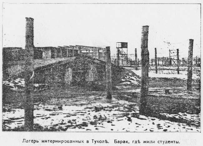 Prisoner-of-war camp for Red Army POW's in Tuchola, Poland, during the Polish–Soviet War of 1919-21. The facility was built by the Austrians in World War One, with running water, canteen, and the infirmary. However, the Polish army took over the camp in dilapidated state only in 1920. During an epidemic of cholera, 2,000 prisoners died. The Soviet propaganda under Josef Stalin raised the death toll to 22,000 out of thin air.[1]